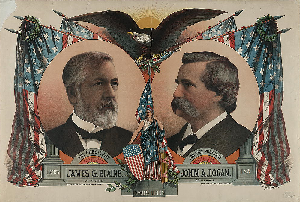 For president, James G. Blaine. For vice president, John A. Logan